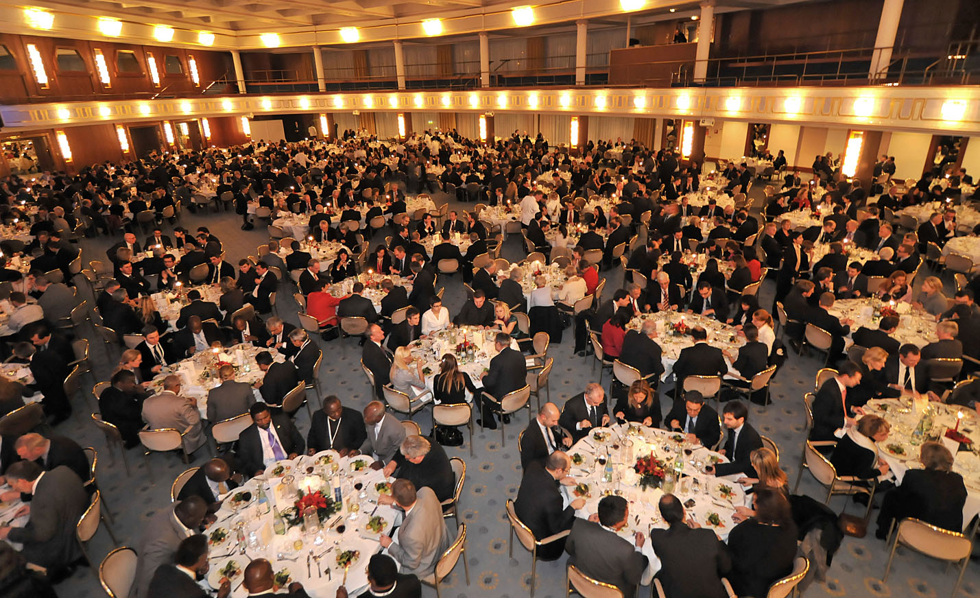 EPP Congress Bonn